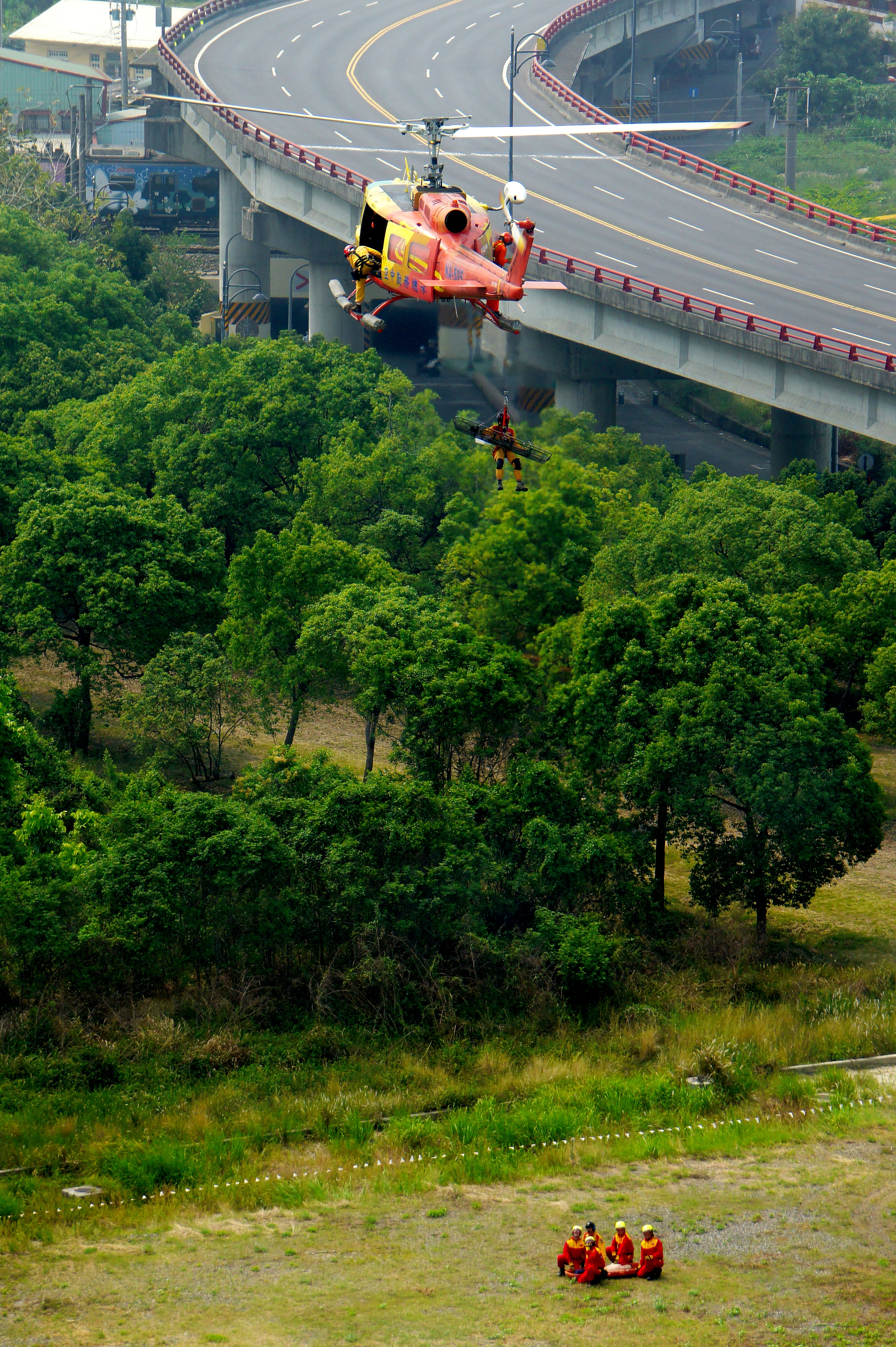 A National Airborne Service Corps officer hanging from a Bell UH-1H helicopter NA-505 during the 37th Wan-an air raid drill in Dalin, Chiayi, Taiwan.